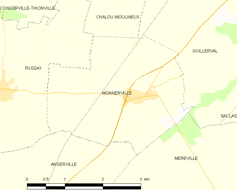 Map of French municipality Monnerville